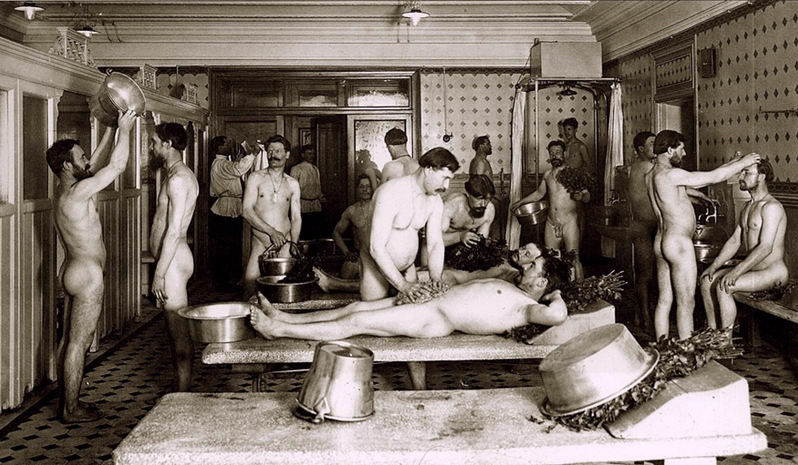 Egorov bath house in Saint Petersburg (Russia) ca. 1910. The scene was acted for the photographer Karl K. Bulla.